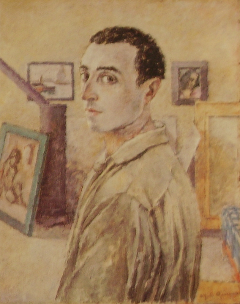 Juti Ravenna - Autoritratto - 1929